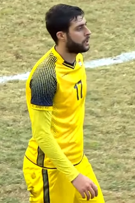 Khalil Khamis with Ahed against Akhaa Ahli Aley during the 2018-19 Lebanese Premier League